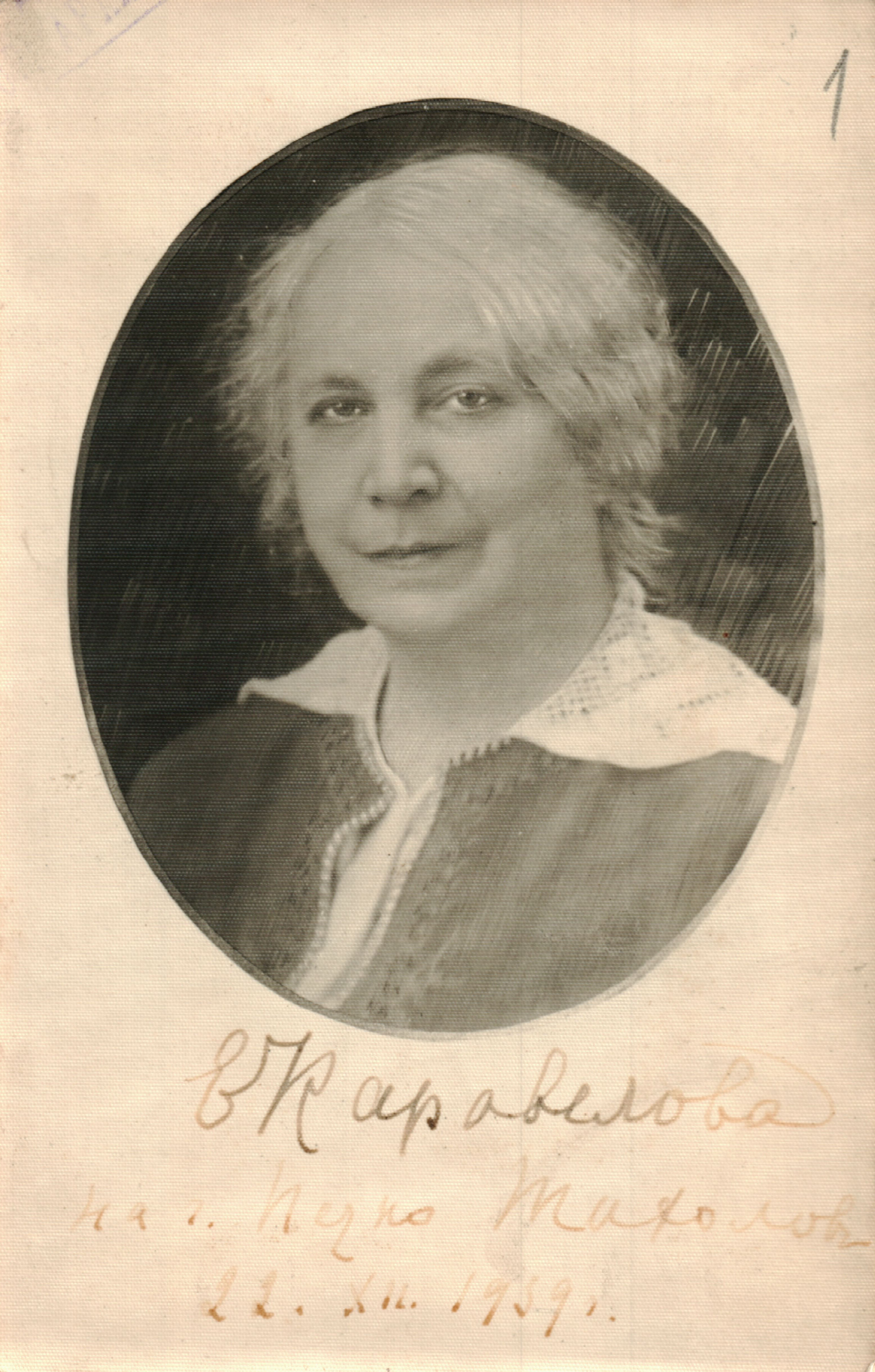 Ekaterina Karavelova (woman activist, author and translator), one of the most remarkable Bulgarian women at the end of 19 and the first half of 20 c., wife of Petko Karavelov (1843 - 1903) who was a leading Bulgarian liberal politician who served as Prime Minister on four occasions.